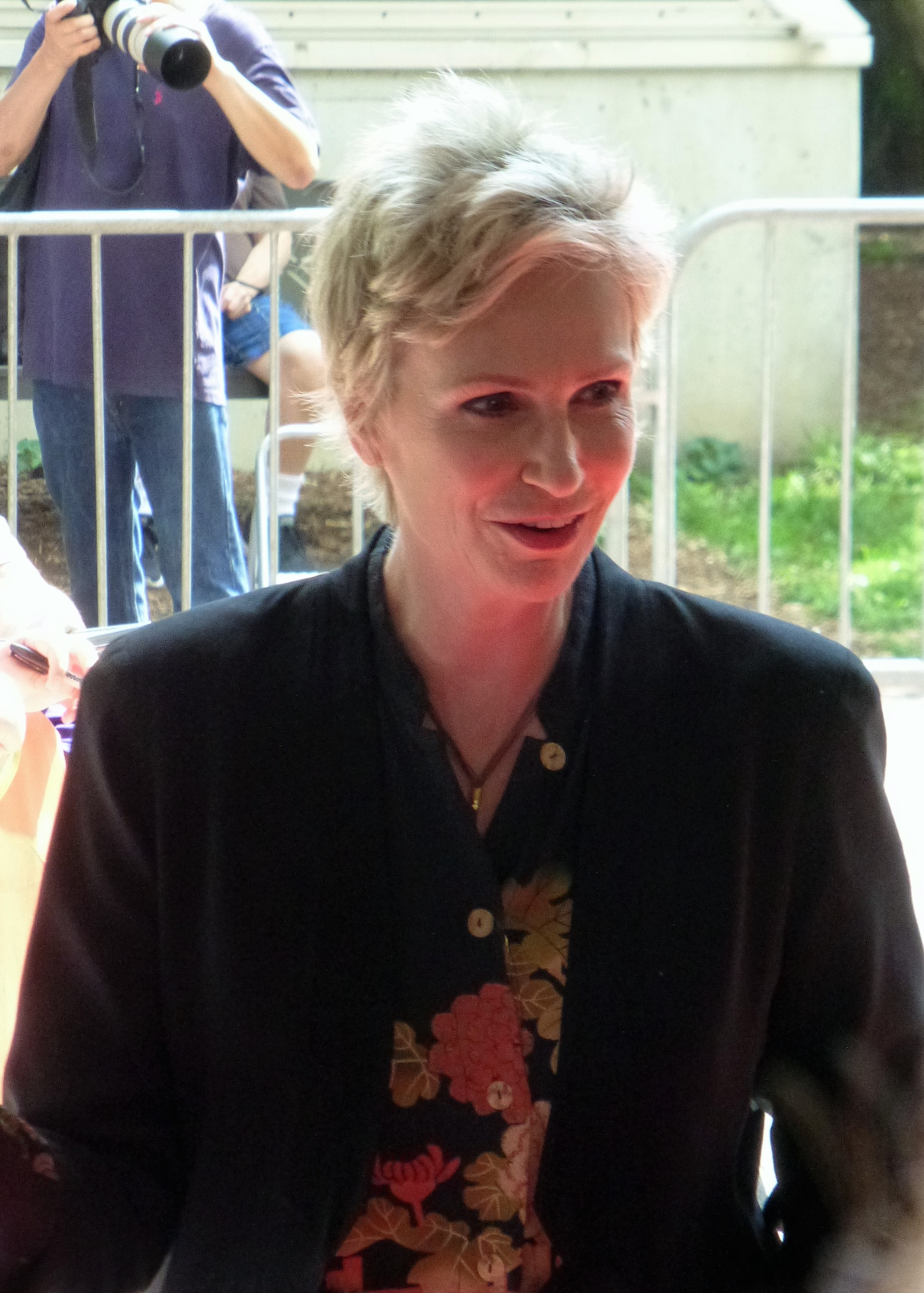 Jane Lynch at the premiere of Mascots, 2016 Toronto Film Festival